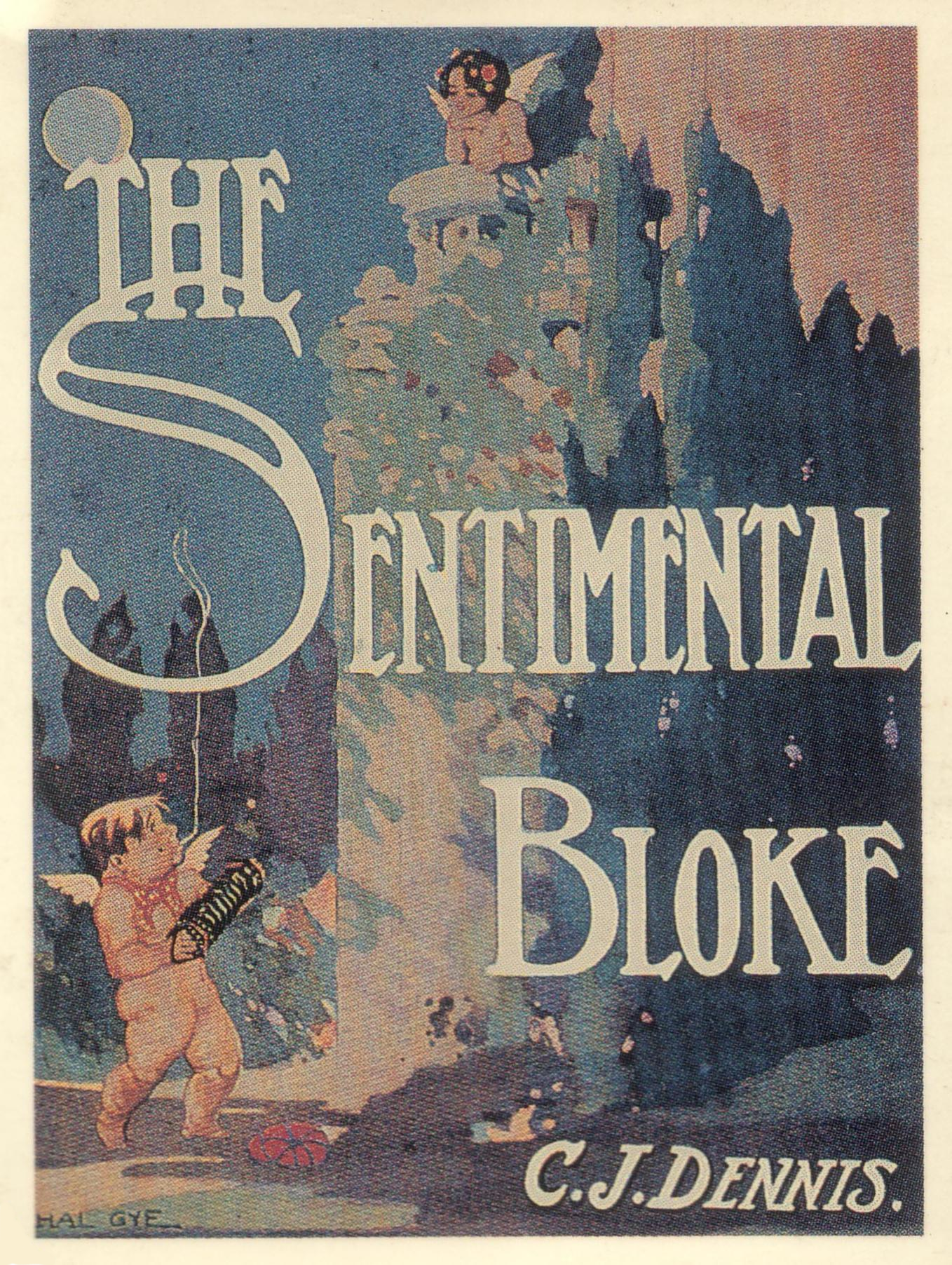 Dustcover of "Songs of a Sentimental Bloke"